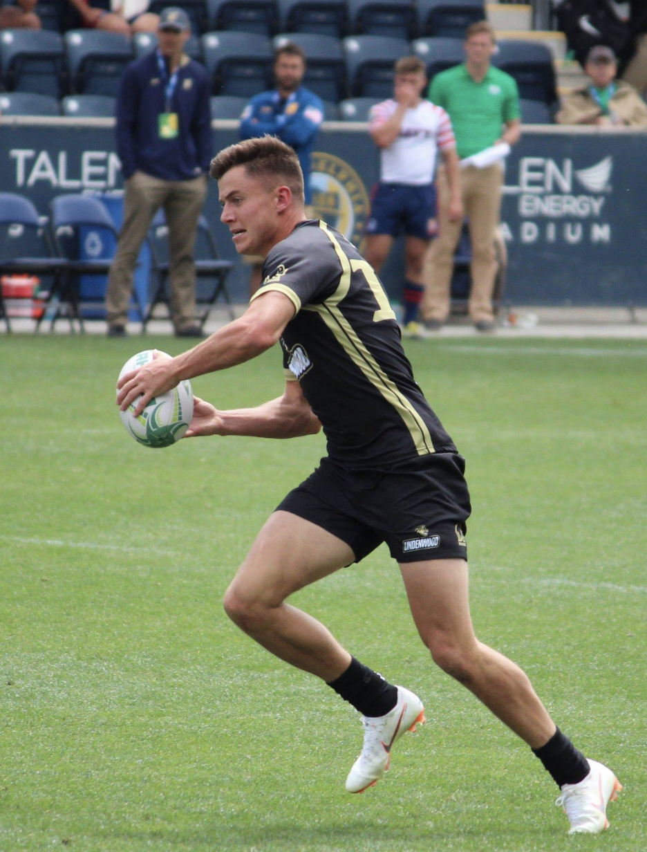 Nick Feakes runs the ball in the Collegiate Rugby Championships in Philadelphia, Pennsylvania.